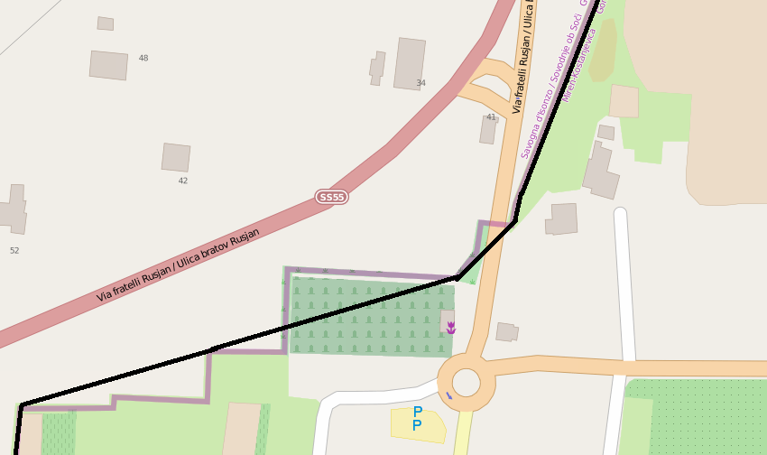 Miren Cemetery Bounday Map (Slovenia)